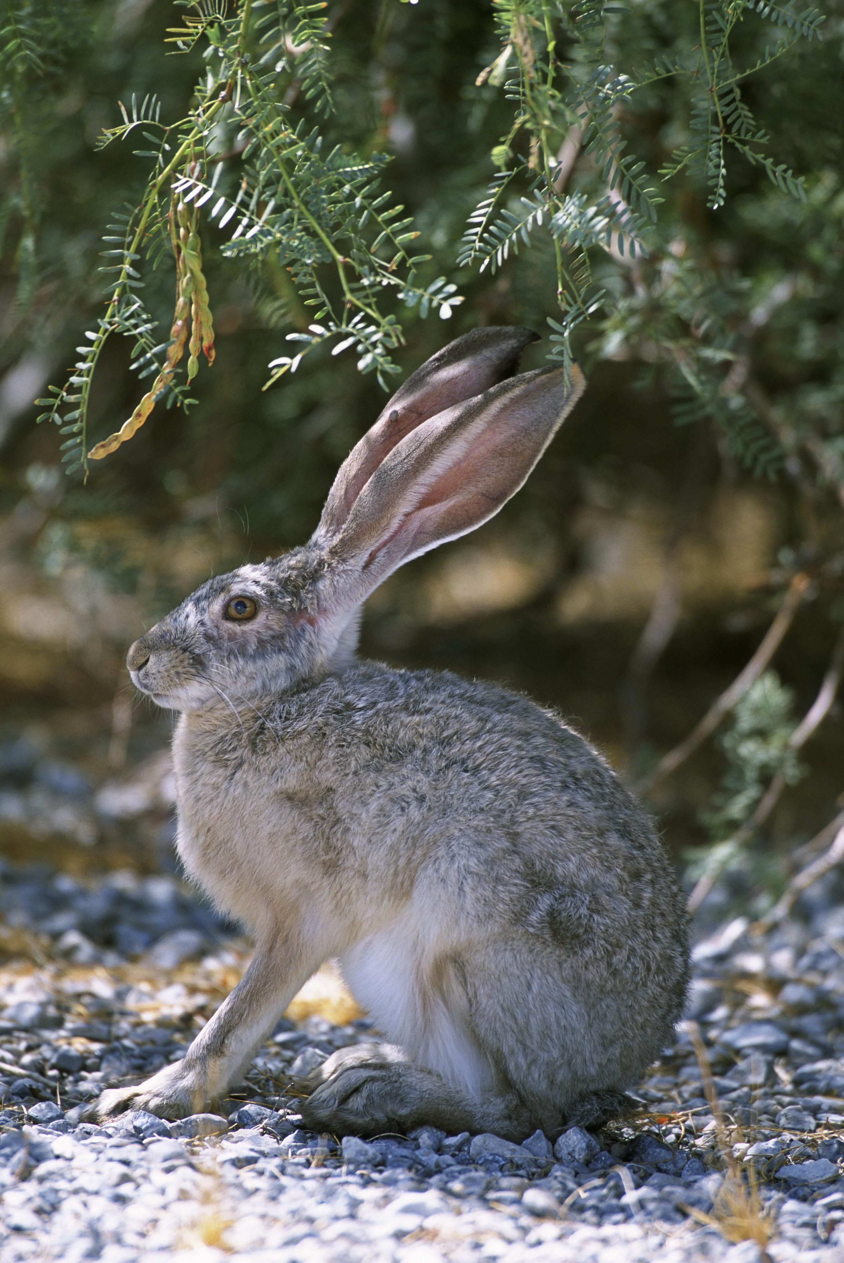 Image title: Black tailed jackrabbit Image from Public domain images website